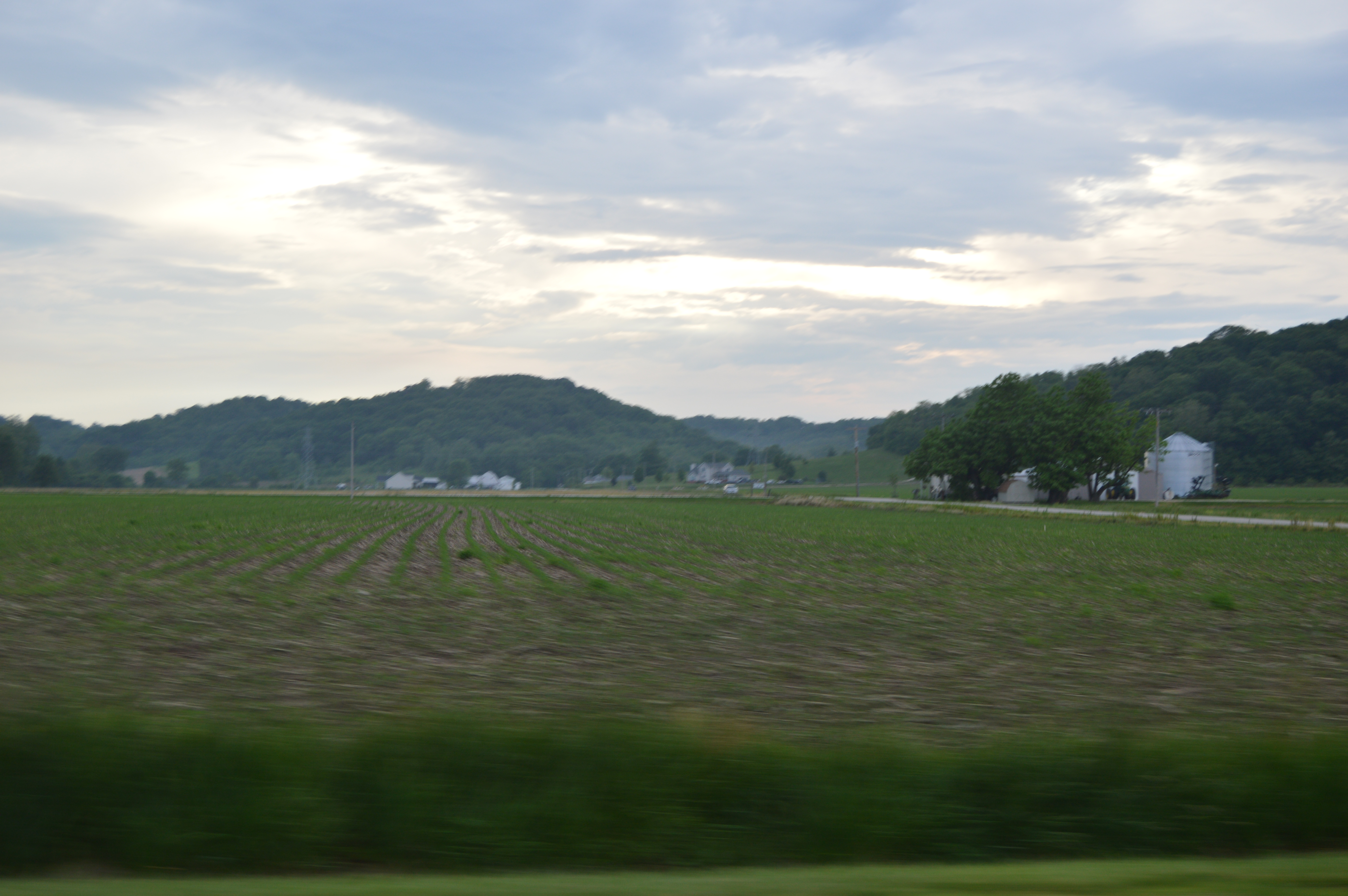 Looking west along Batchtown Road from Illinois River Road in Richwood Precinct, Calhoun County, Illinois, United States.